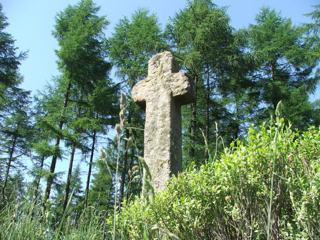 Mauley Cross. Mauley Cross stands about a mile north of Stape by the side of the medieval Brown Howe Road which is now better known as being part of the Forest Drive through Cropton Forest. The Cross is named after the de Mauley family of Mulgrave Castle which is situated north-west of Whitby. The family were notorious poachers and it is presumed that the cross marks their boundary of grazing rights. Having once stood on open moorland, Mauley Cross now seems 'out of place' surrounded by forest pines.